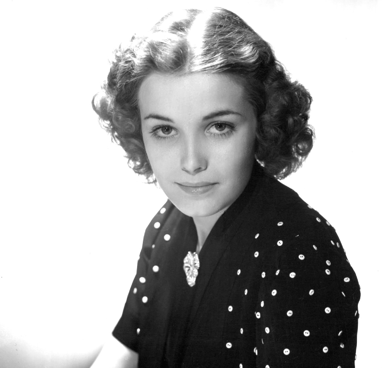 Photo of actress Lios Collier from the radio program "Hollywood in Person.